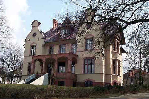 Villa of Harry Truman during the Conference of Potsdam, 1946. The former "Haus Erlenkamp" was built in 1891